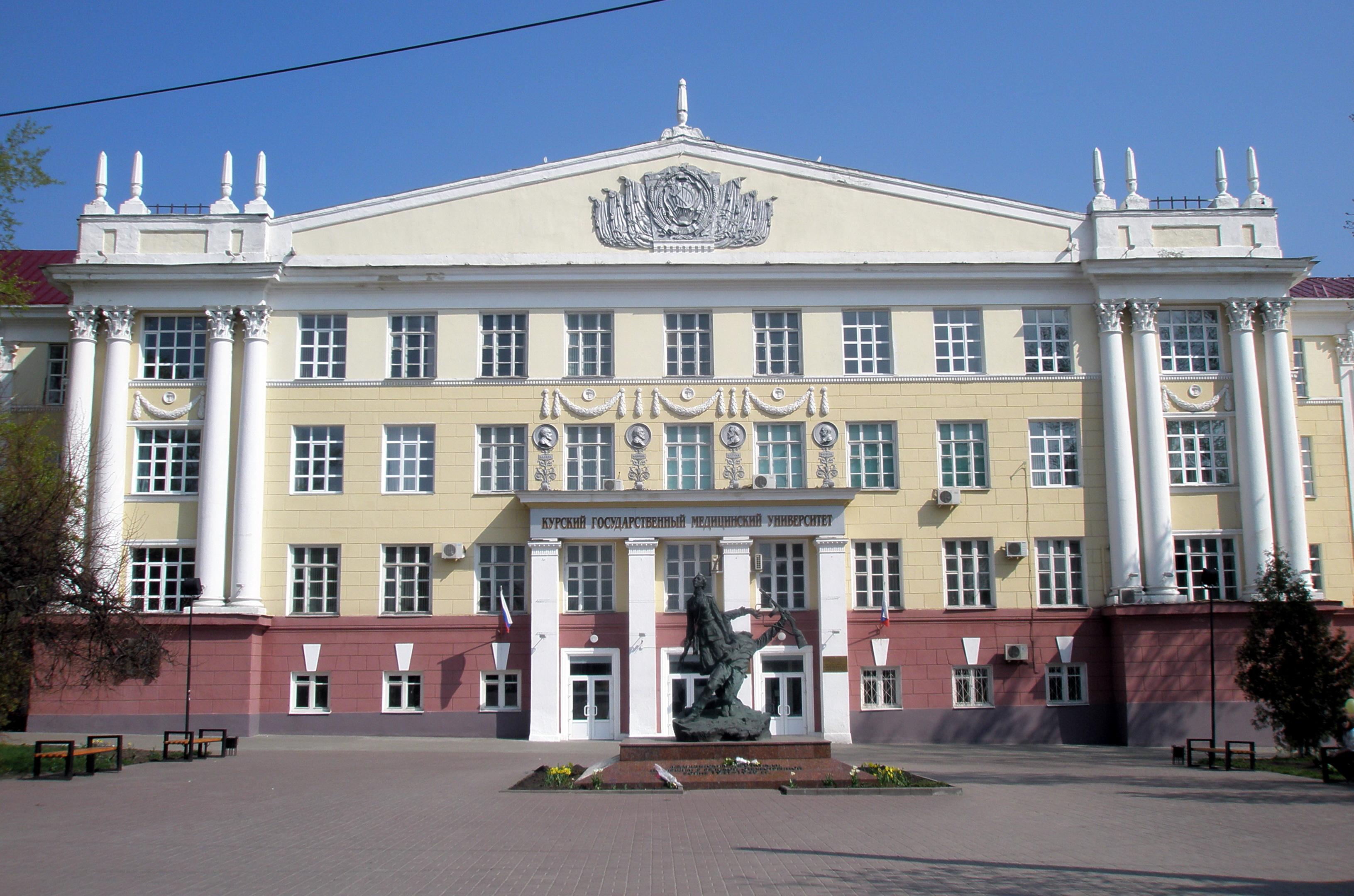 Kursk State Medical University